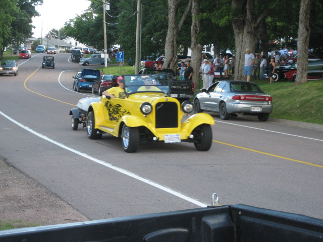 Show n Shine festival in Memramcook, held each summer in august.